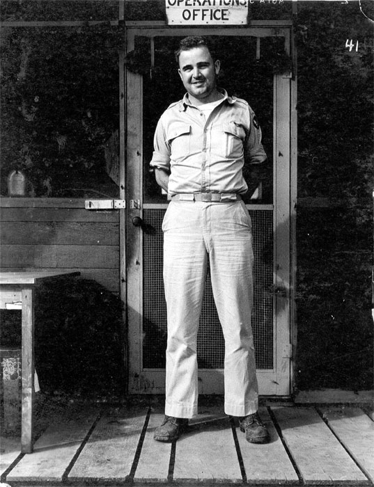 Brigadier General Charles W. Sweeney, pilot of aircraft that dropped the atomic bomb on Nagasaki